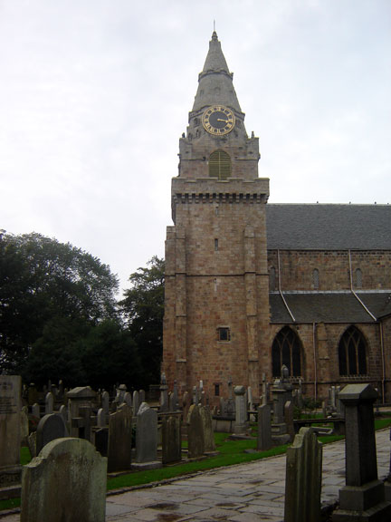 I created this file.